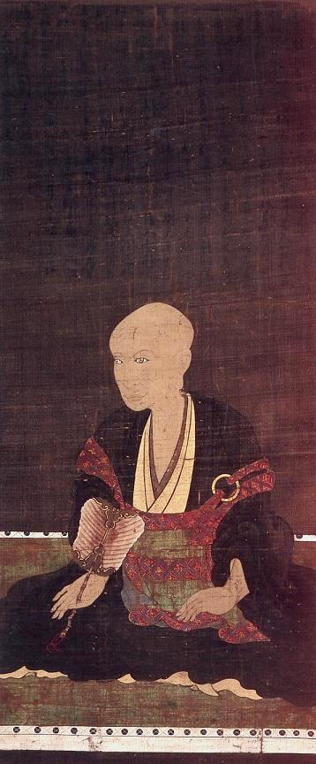 Takeda Nobutora, by Takeda Nobukado, Daisenji, Kofu, Yamanashi, Japan